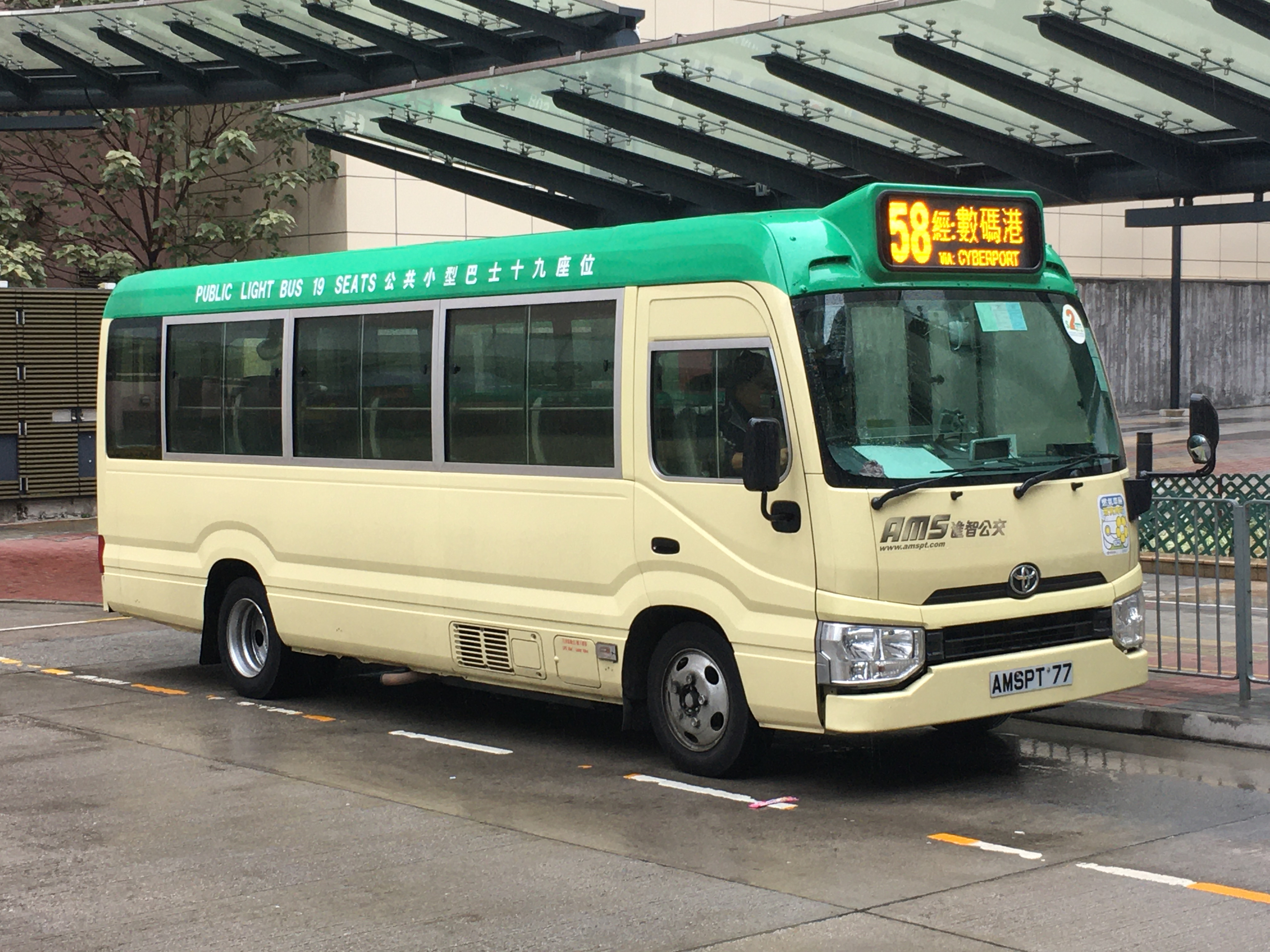 中文（香港）: This photo is taken in Kennedy Town.